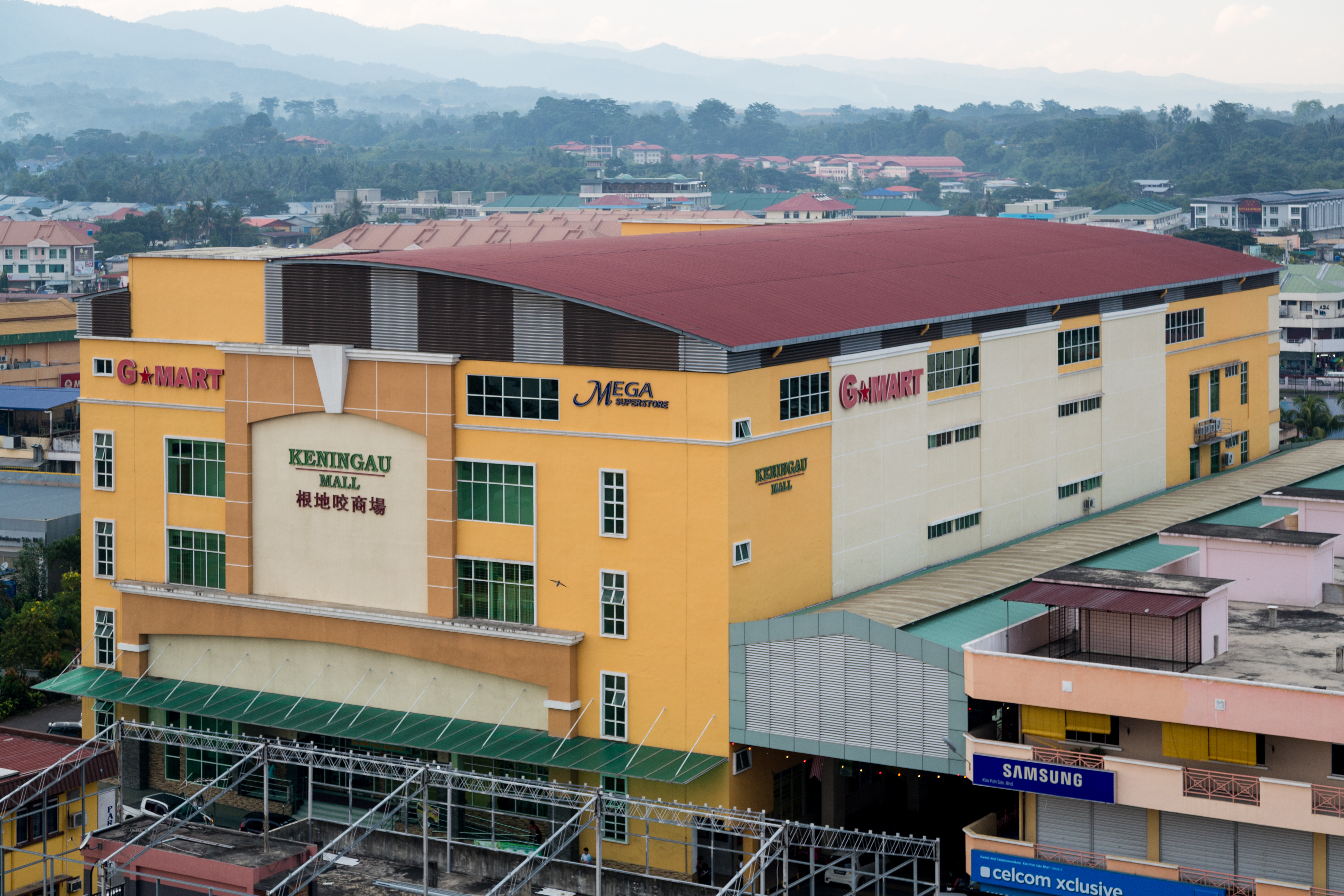 Keningau, Sabah: Keningau Mall